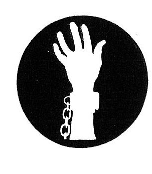 Fof-logo-black-white